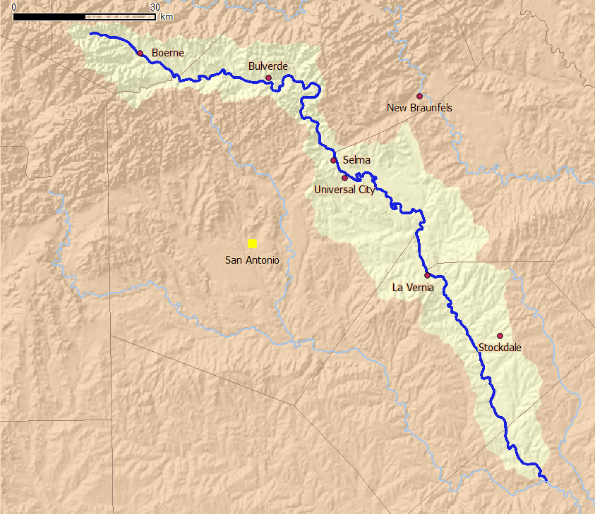 This is a map of the Cibolo Creek watershed. I, Kuru, created from data originating at the USGS.